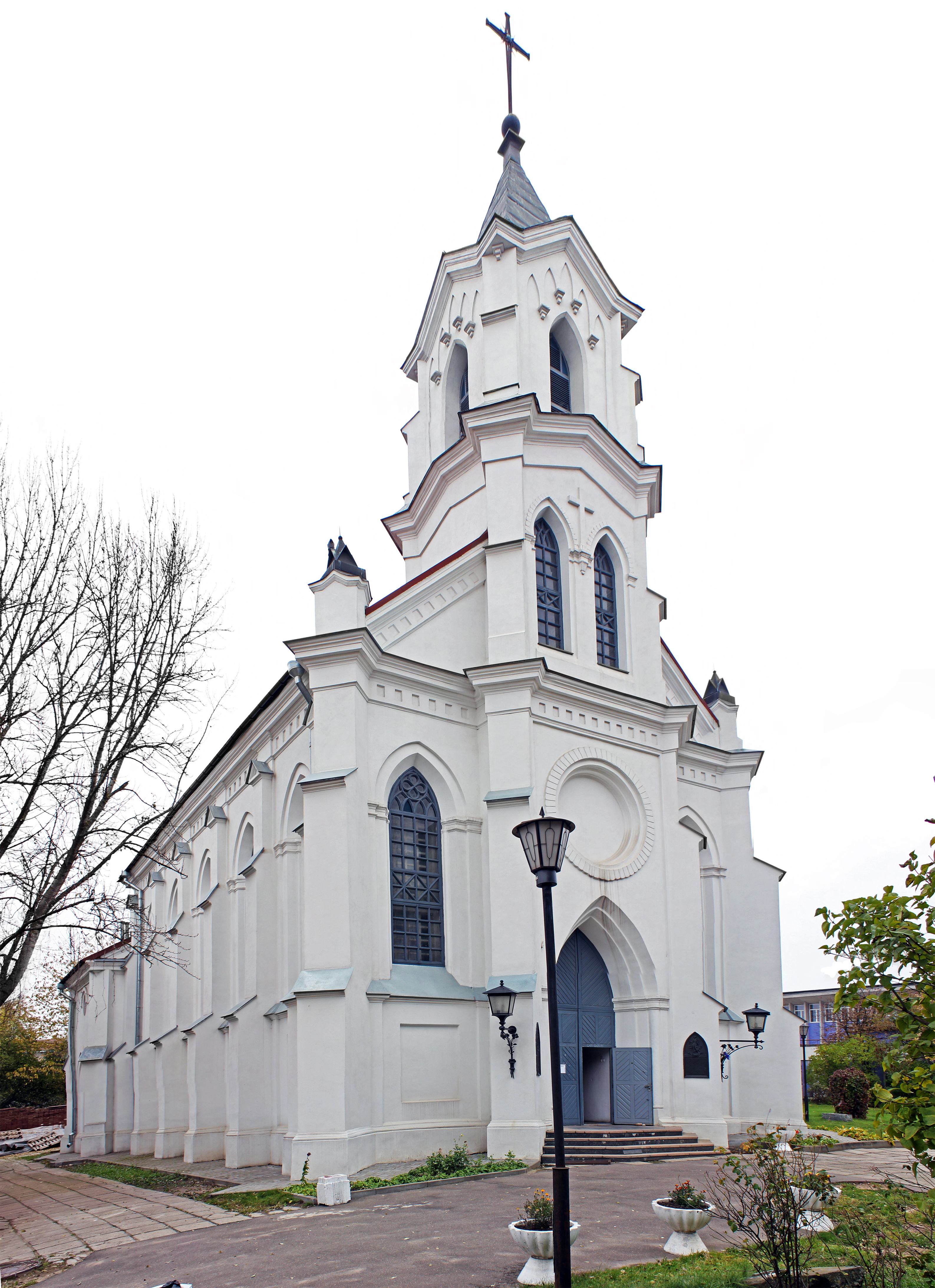 This is a photo of Belarusian heritage monument. Reference number: 712Г000193 ( WLM)